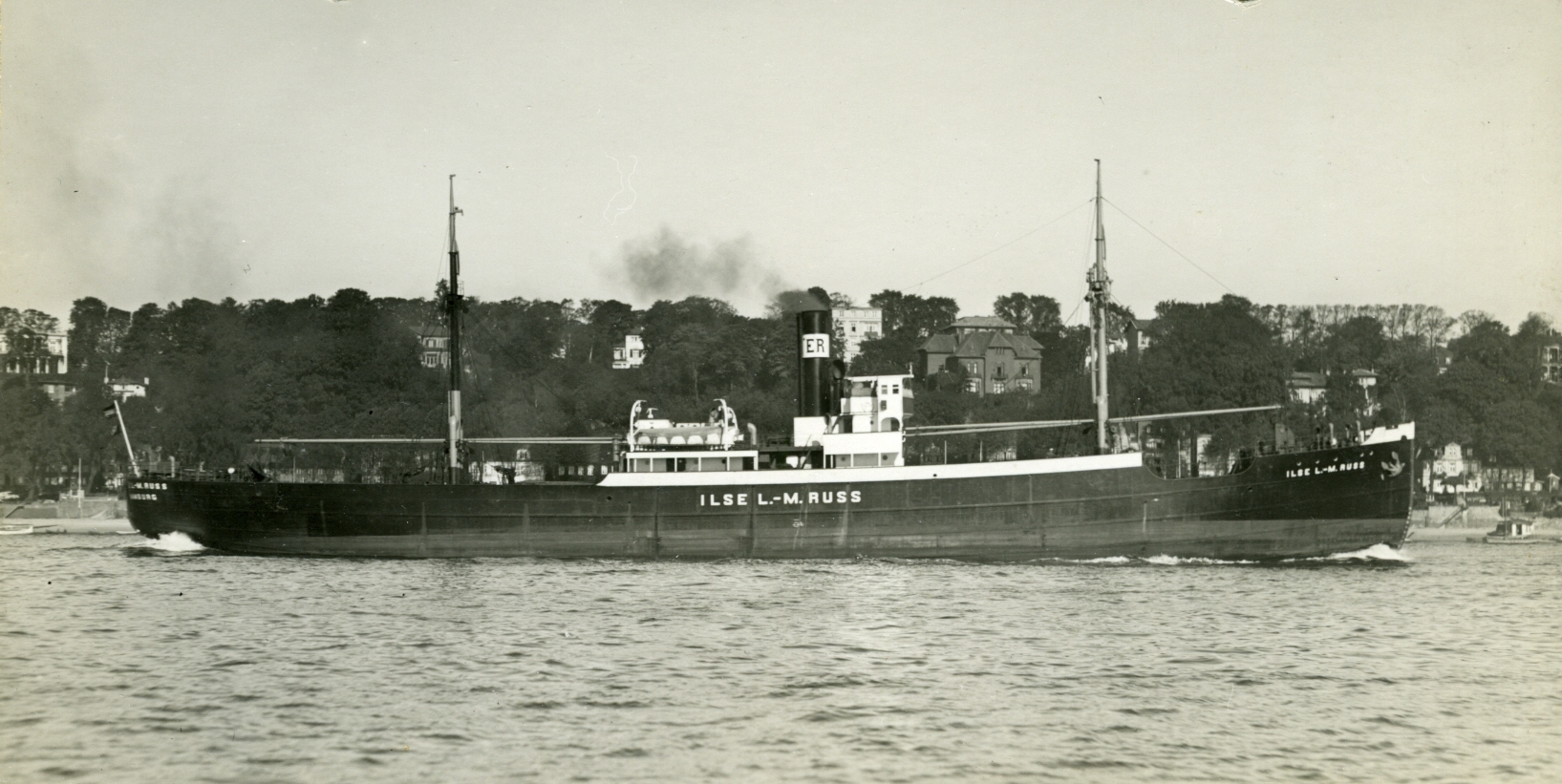 General cargo ship ILSE L.-M. RUSS built at Flensburger Schiffsbau-Gesellschaft, Flensburg (yard № 403, launched: 26-05-1926, delivered: 09-1926) for Reederei Ernst Russ, Hamburg, later names: 1945 EMPIRE CONQUEROR, 1946 EKORNES, 1947 ELFRIDA, 10-12-1959 foundered North Sea (58.09N/3.03E); collection J. Robert Boman (1926 - 2002) owned by Sjöhistoriska museet.